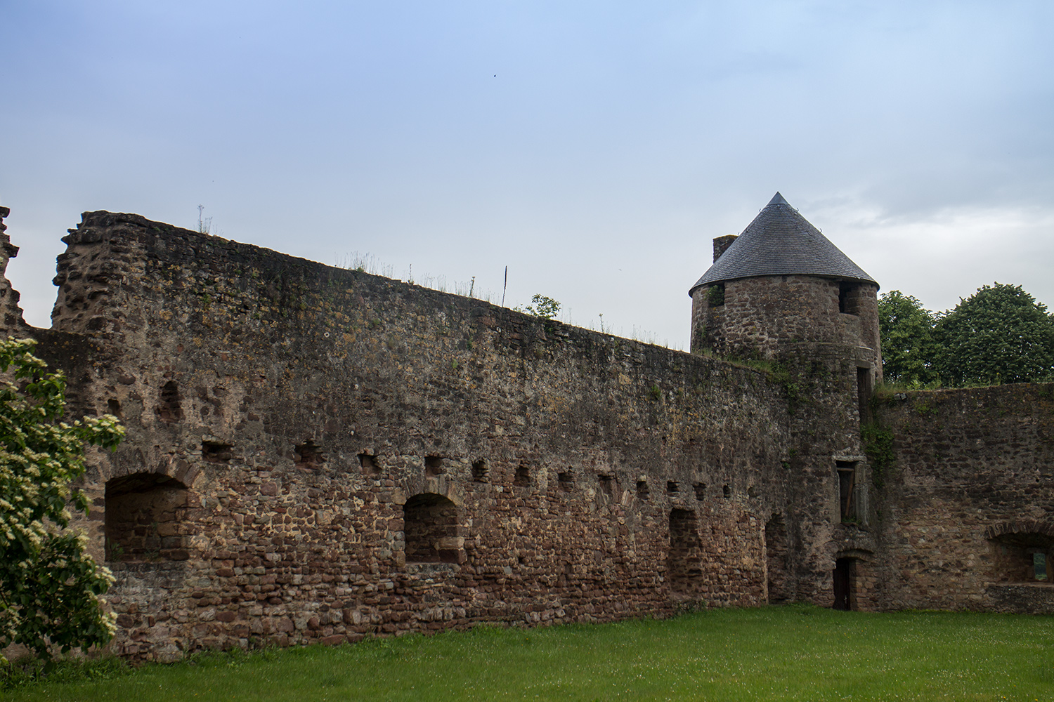 Pettingen castle interior by Luxembourg photographer Vio Dudau